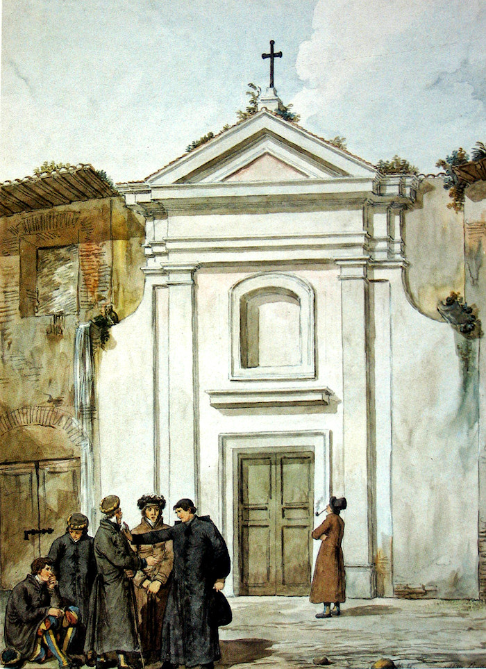 Church of Saint Peregrinus in Vatican (contrast enhancement and resize of the original flickr work)